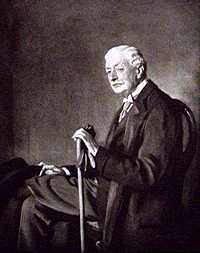 A portrait of the third Lord Lurgan.